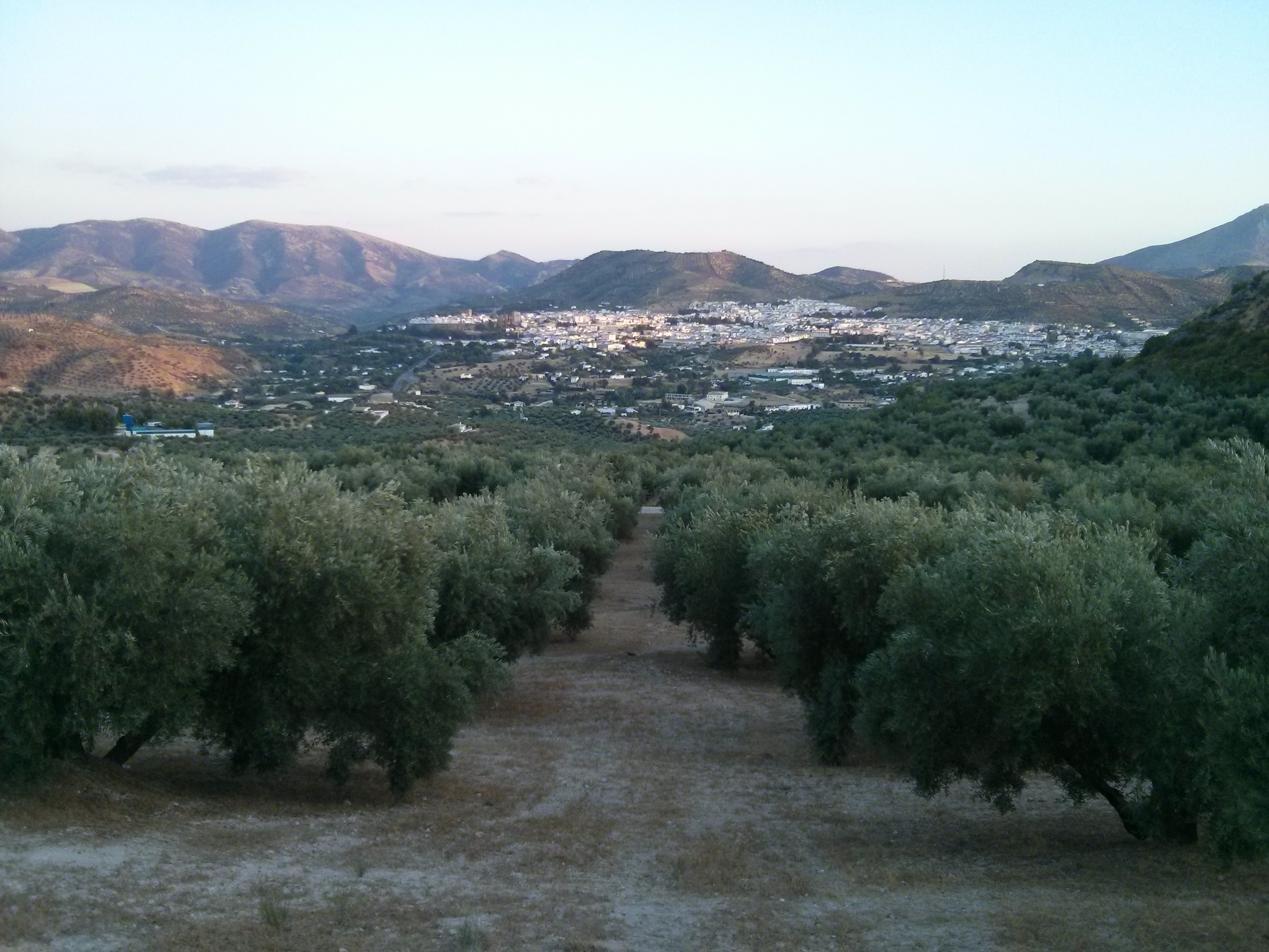 Priego de Córdoba view on Bidon